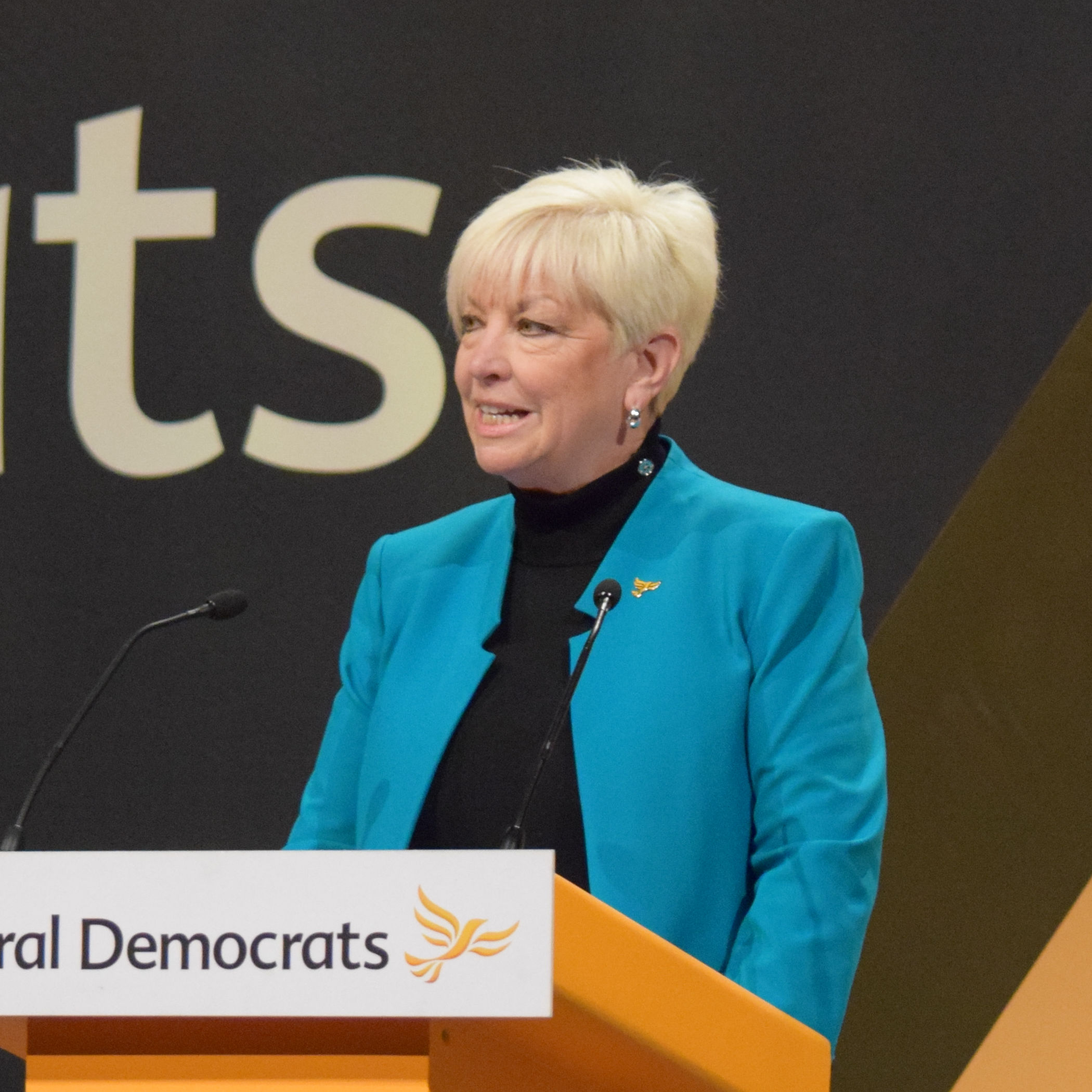 Barbara Gibson addressing a Liberal Democrat conference in the The Barbican Centre, York, prior to being elected Member of the European Parliament